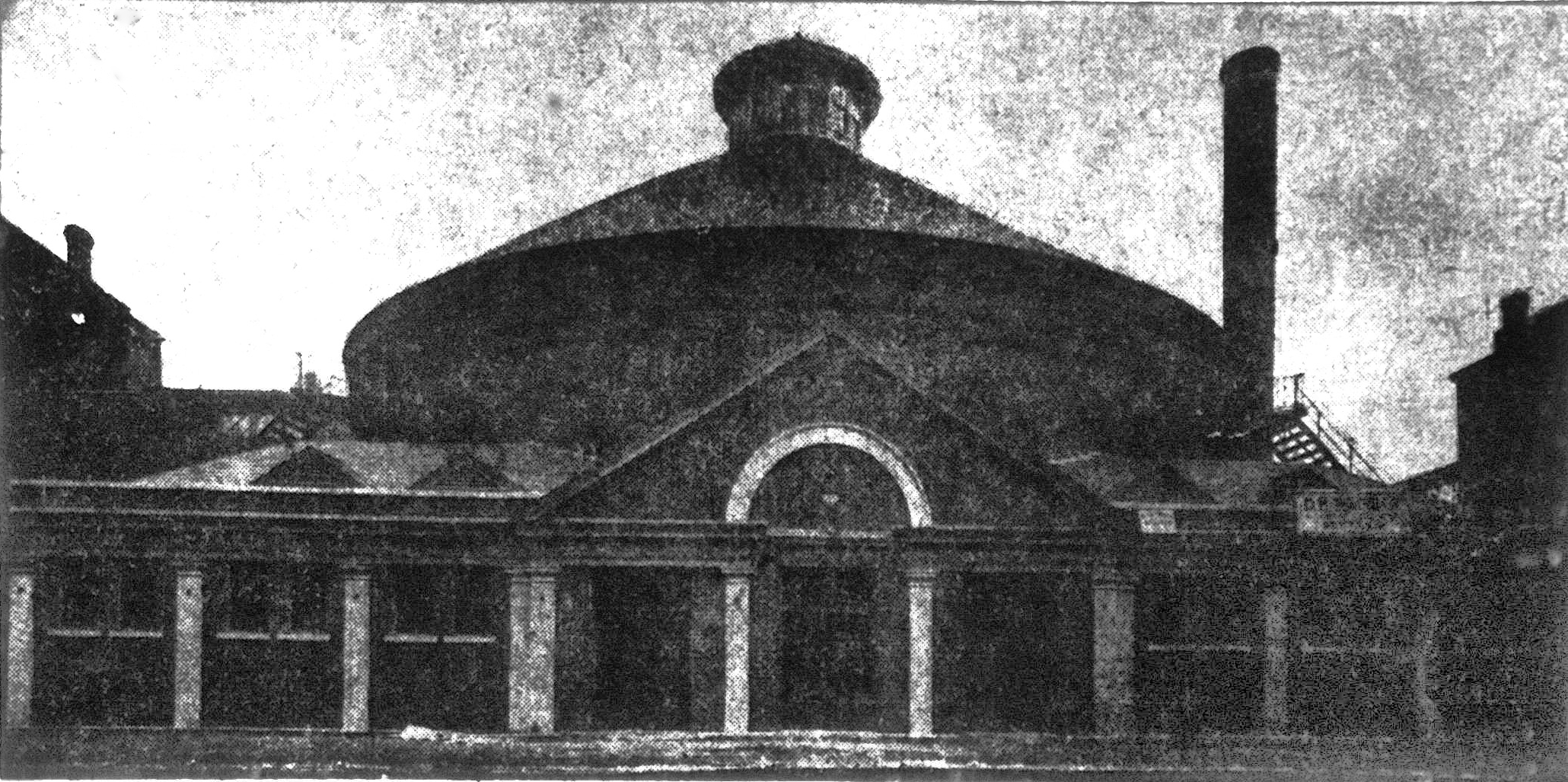 Photo of the the Valley Arena Gardens, seen in 1926 just prior to its opening. The original newspaper caption reads "Front elevation as seen from Bridge Street". Note that the roof cupola and front building both differ from later photos where the rebuilt building had a flat roof and a second story at its front. The central round structure is a converted brick gasometer